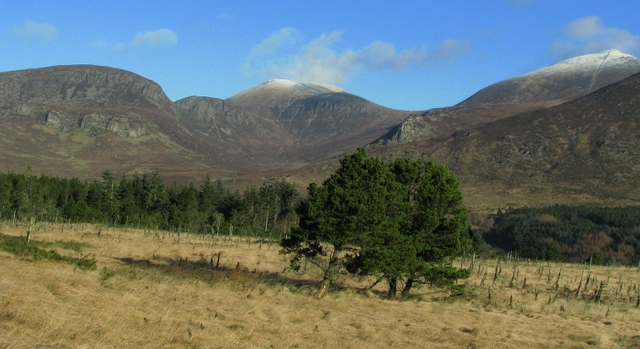 Annalong Wood and the Mourne Mountains Looking over Annalong Wood towards some of the Mournes. Slieve Donard is on the right, Slieve Commedagh is centre and Cove Mountain is on the left.